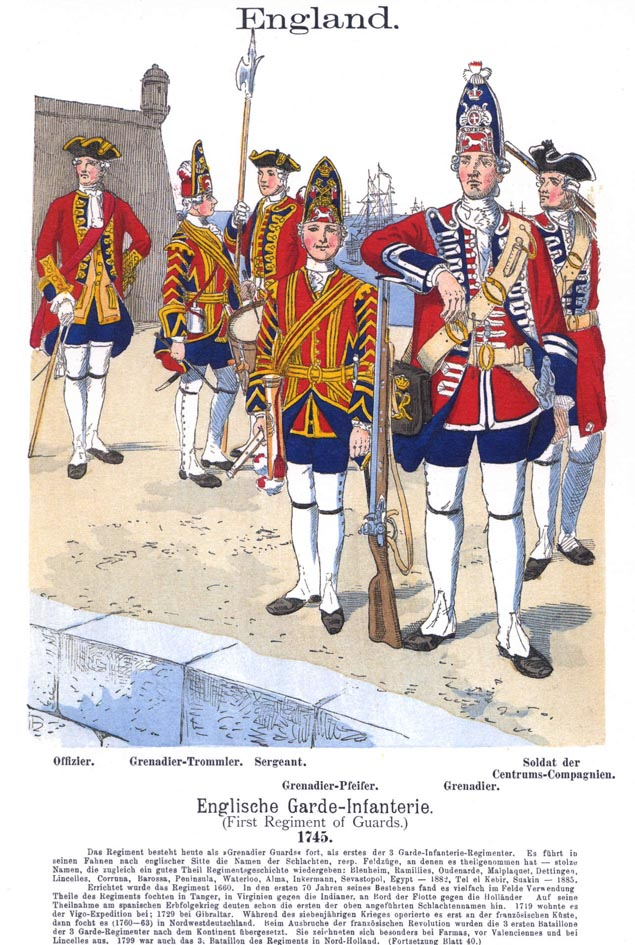 England. Englische Garde-Infanterie. 1745